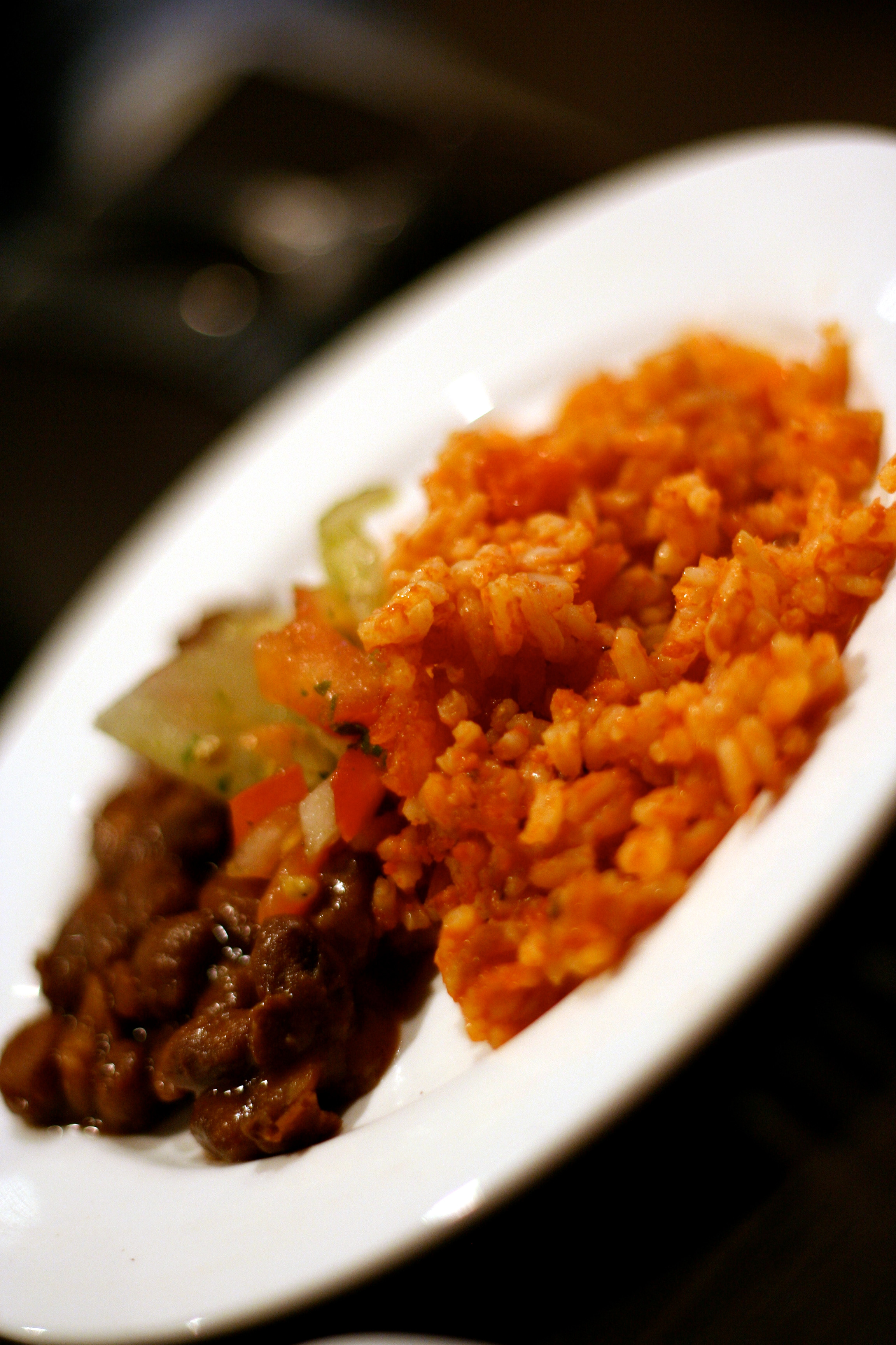 Mexican rice and beans